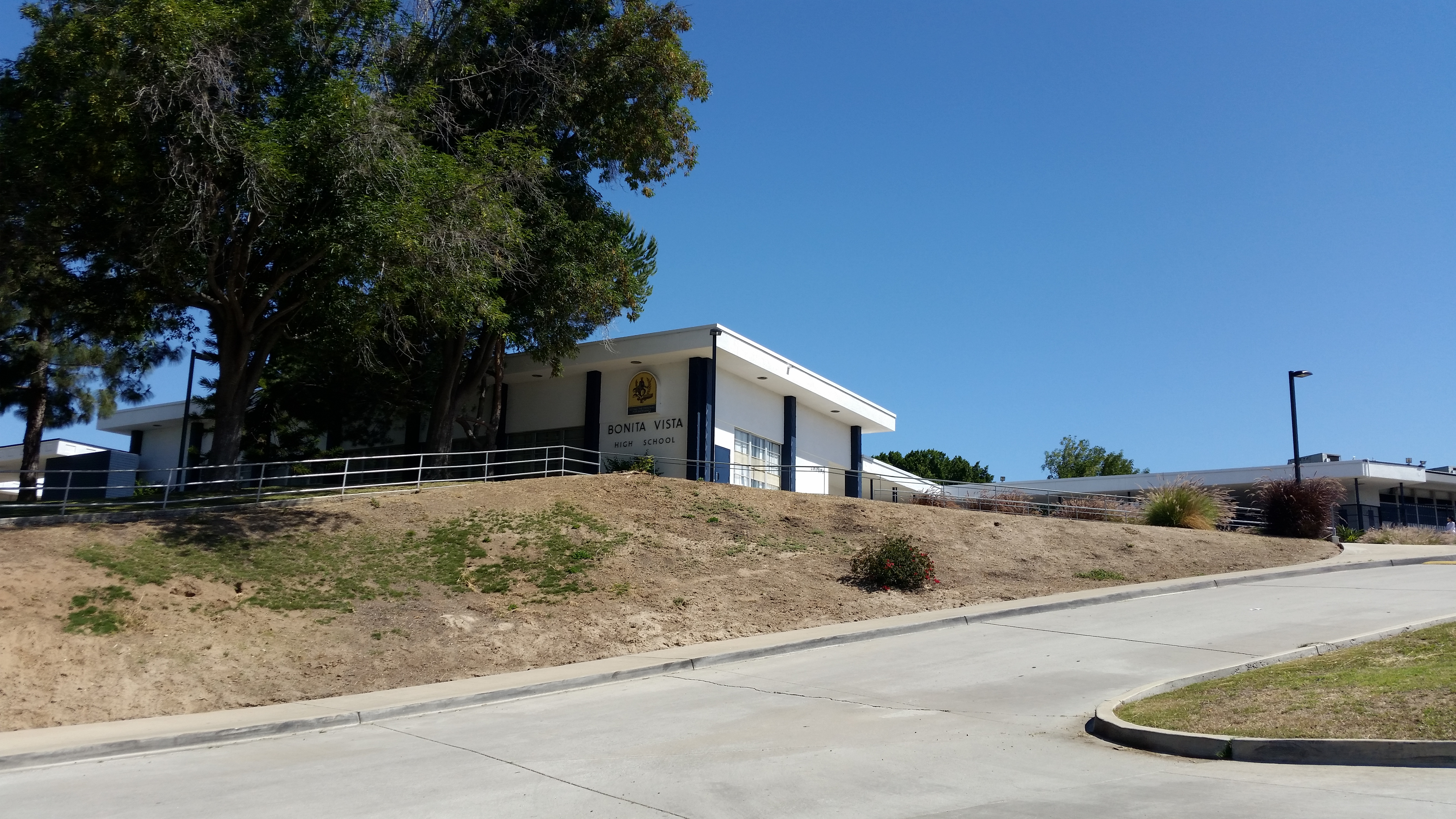 Southwest corner of the building complex in the morning.